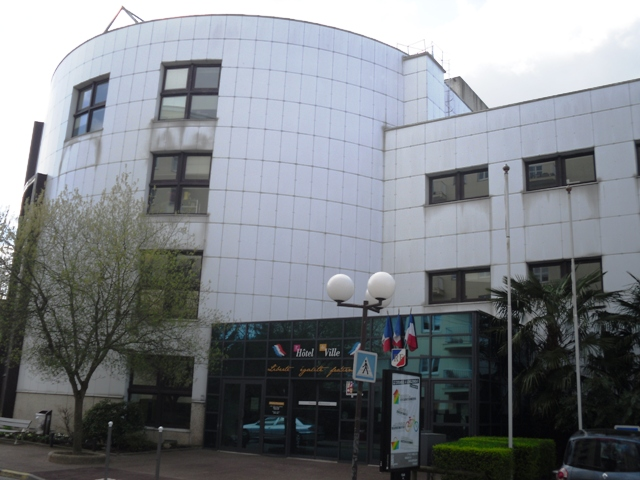 Longjumeau Town Hall